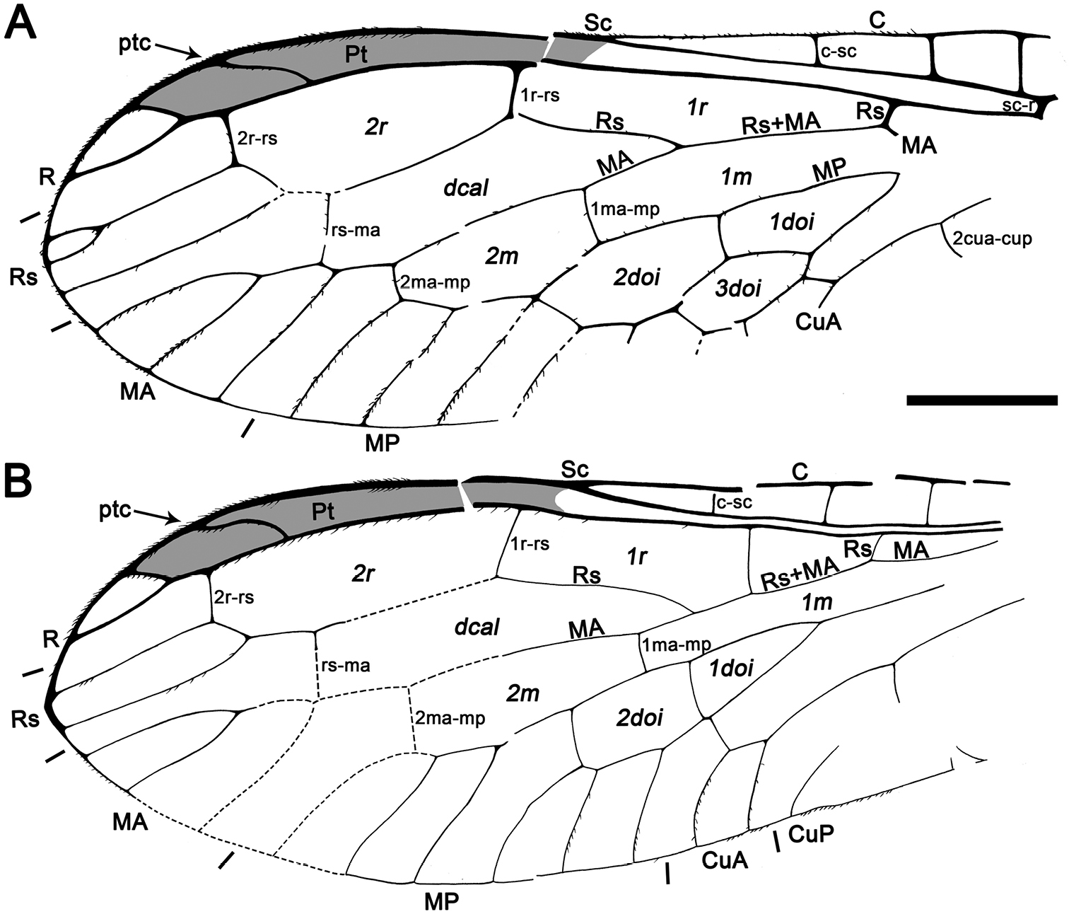 Drawings of Necroraphidia arcuata gen. et sp. n., holotype CES 391.1. A right forewing B right hind wing with reconstructed part taken from the left hind wing (dashed line). Only the distalmost c-sc crossvein has been tagged for both wings. Scale bar = 1 mm (both wings at the same scale).